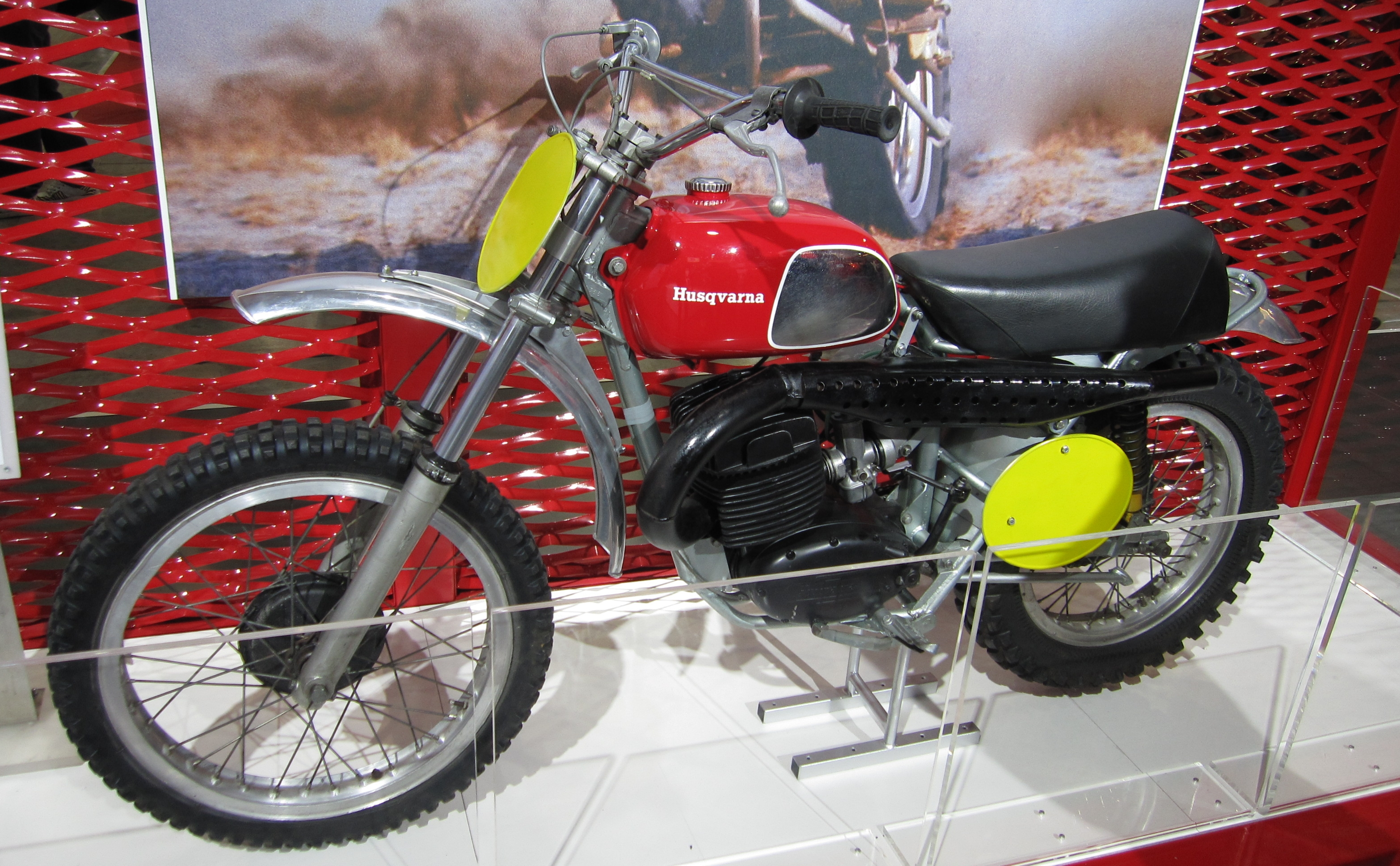 Husqvarna H400, Milan Motorcycle Show EICMA 2011